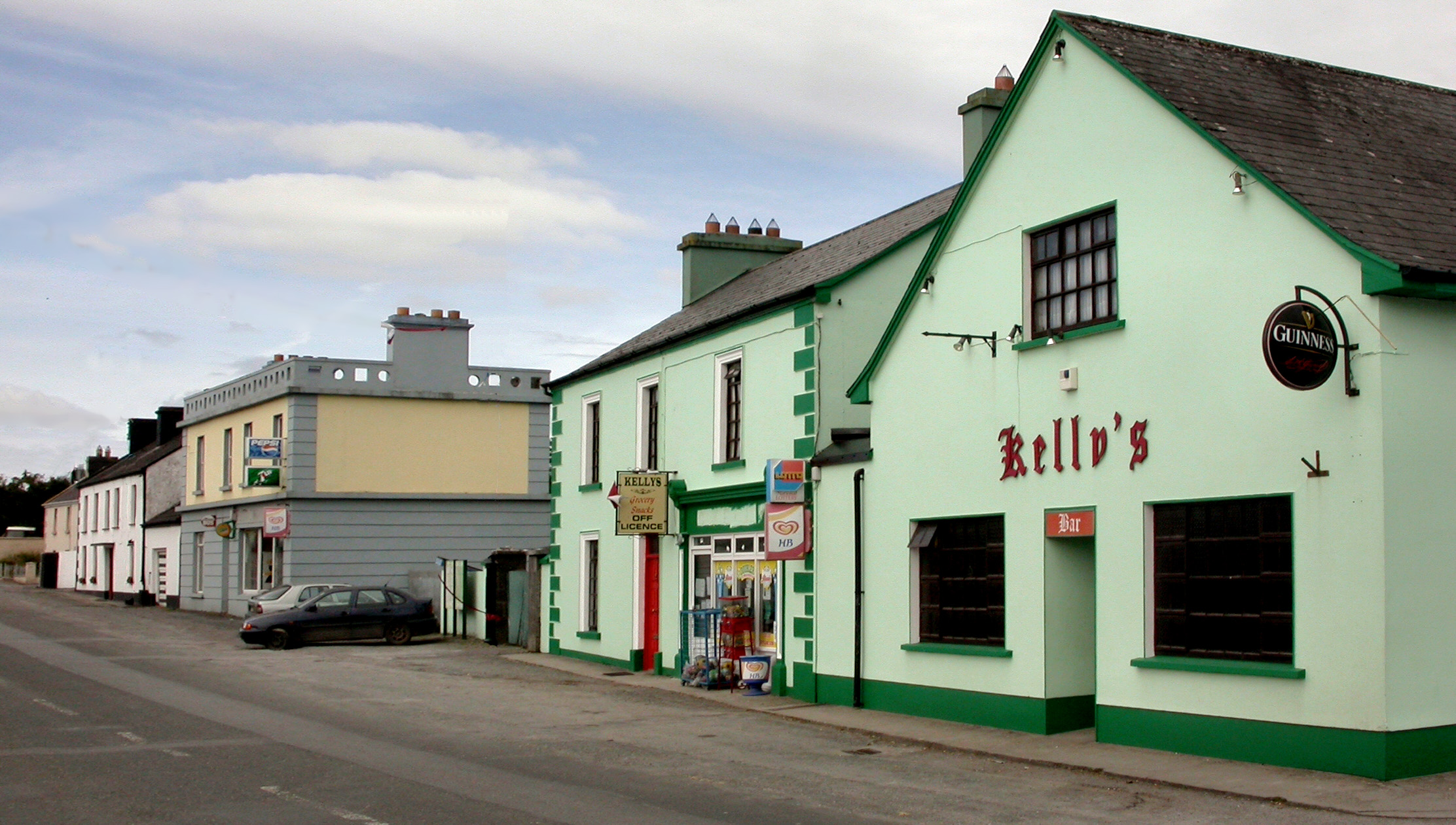 Priomhshraid Tuilsce, Co. Ros Comain